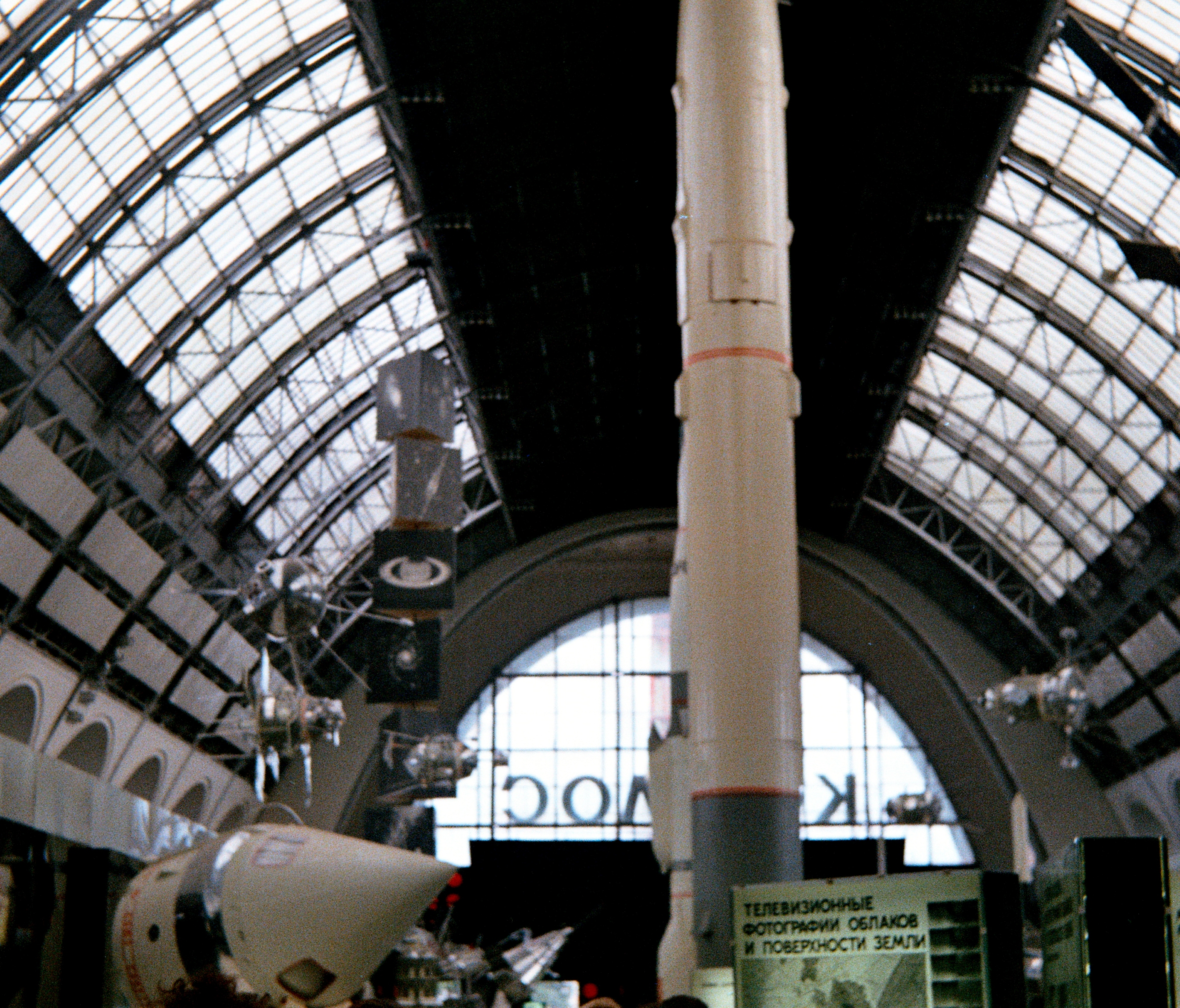 Schau der Wirtschaftserfolge, Moskau - Halle des Kosmos